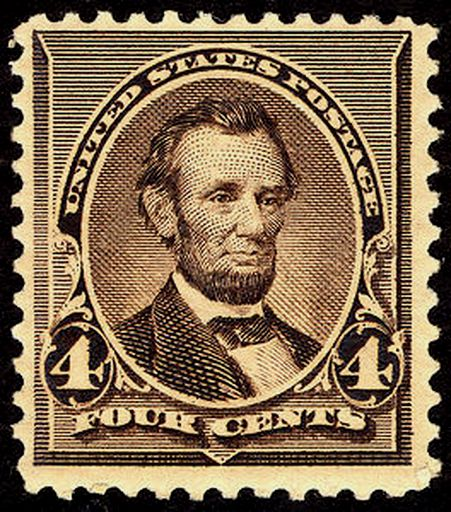 Abraham_Lincoln_1890_Issue-4c.jpg